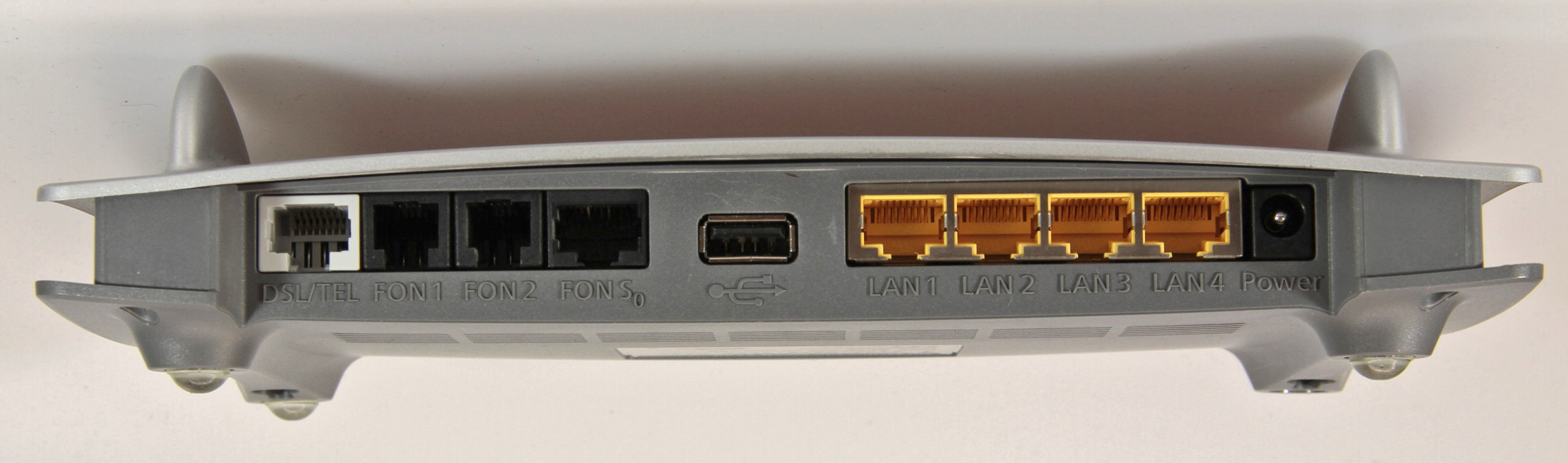 Fritzbox Fon WLAN 7390 back side connections